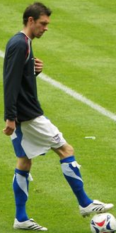 George O'Callaghan. Image cropped from original at flickr.